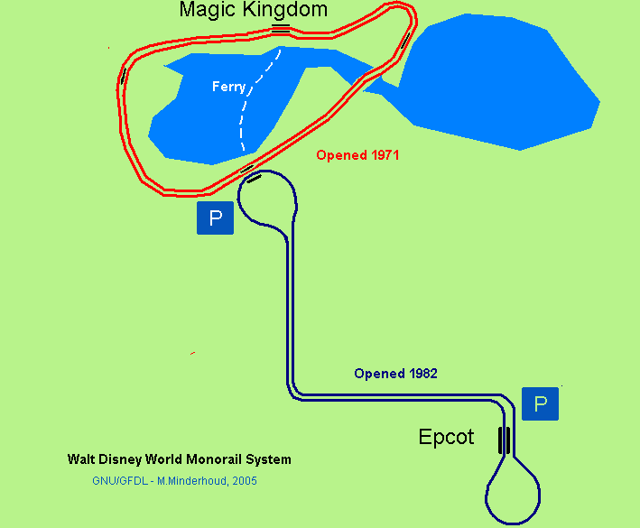 Monorail map, Disney World, May 2005